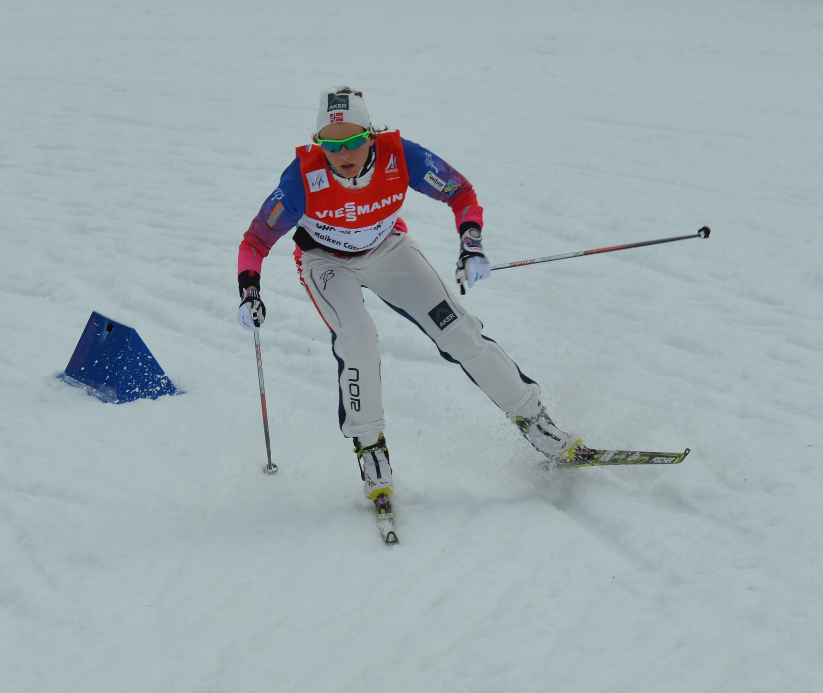 Cross-country athletes during an open training session at the FIS Nordic World Ski Championships 2015 in Falun